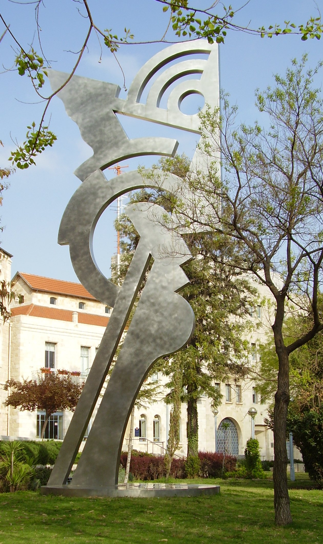 The stainless steel monument in memory of Yitzhak Rabin in Jerusalem